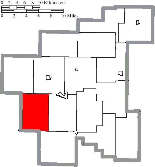 Map of the municipal and township boundaries of Noble County, Ohio, United States, as of the 2000 census, with the location of Sharon Township highlighted. Township borders are shown only in unincorporated areas in order to differentiate incorporated and unincorporated areas more clearly.